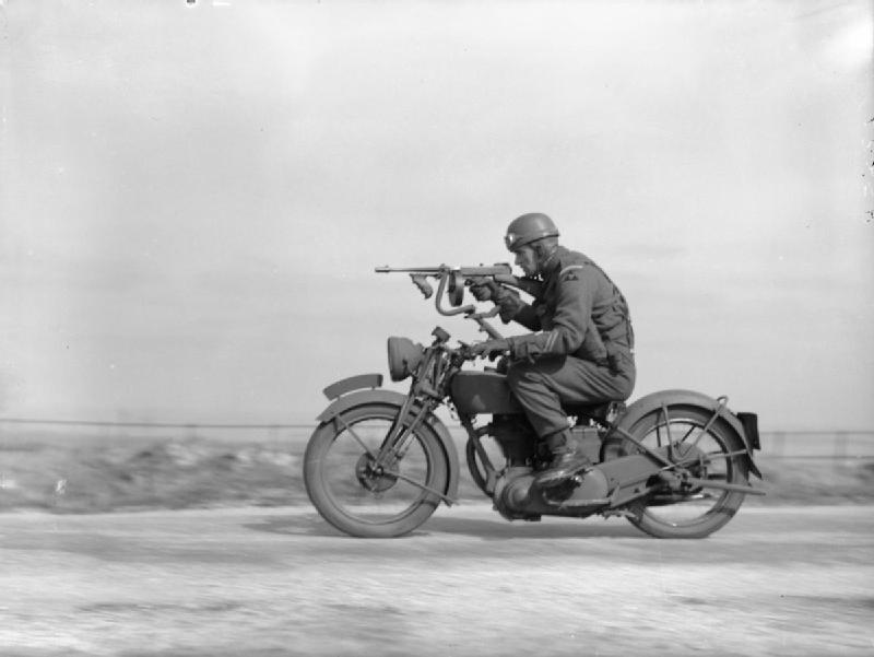 The British Army in the United Kingdom 1939-45 A guardsman of 1st Battalion, Grenadier Guards, 3rd Division, riding a motorcycle with a 'Tommy gun' fitted to a special mounting, Swanage, 9 April 1941.